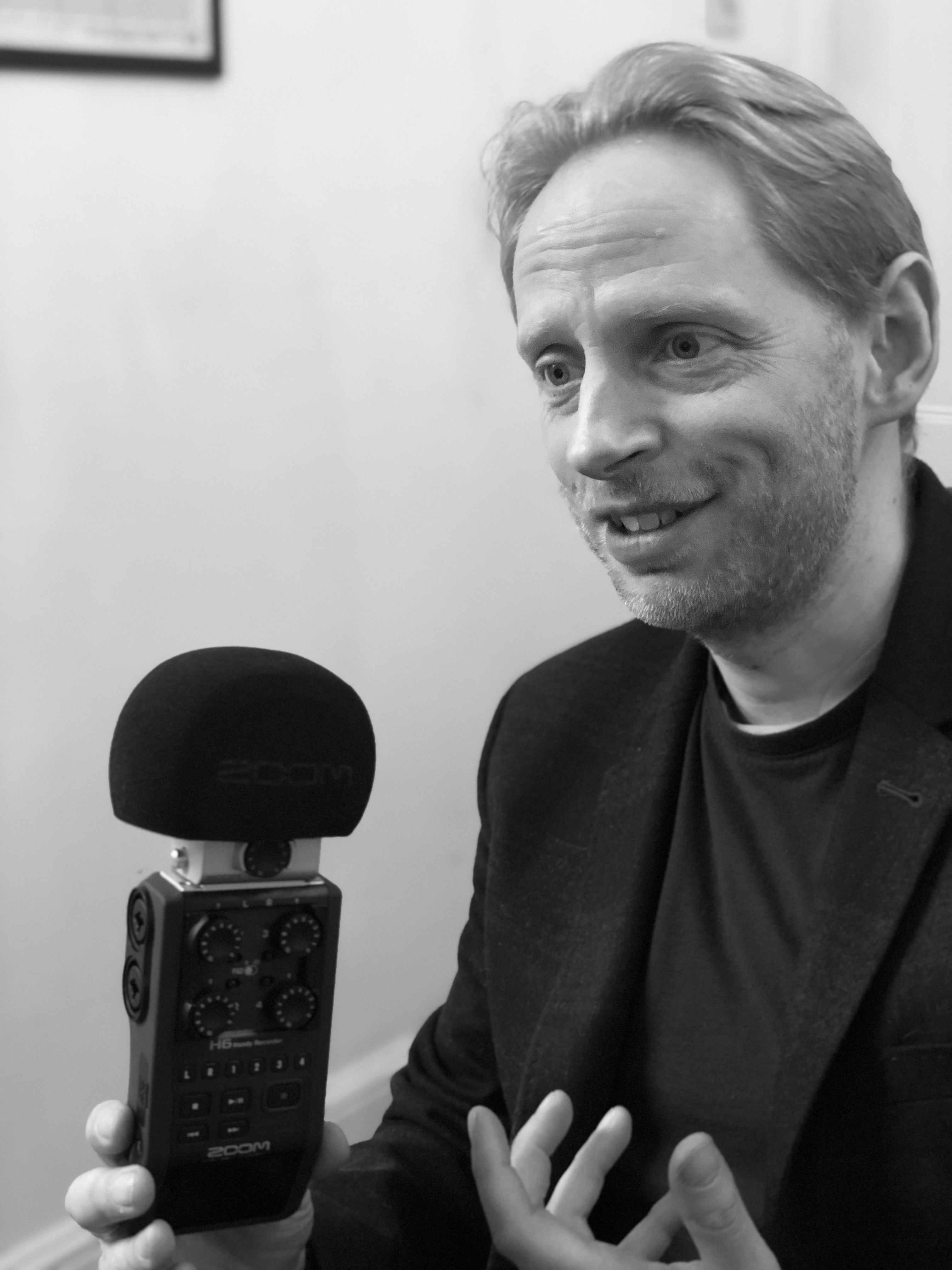 PR for Humans podcast